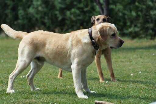 A yellow Labrador Retriever with a mixed-breed dog in the background.